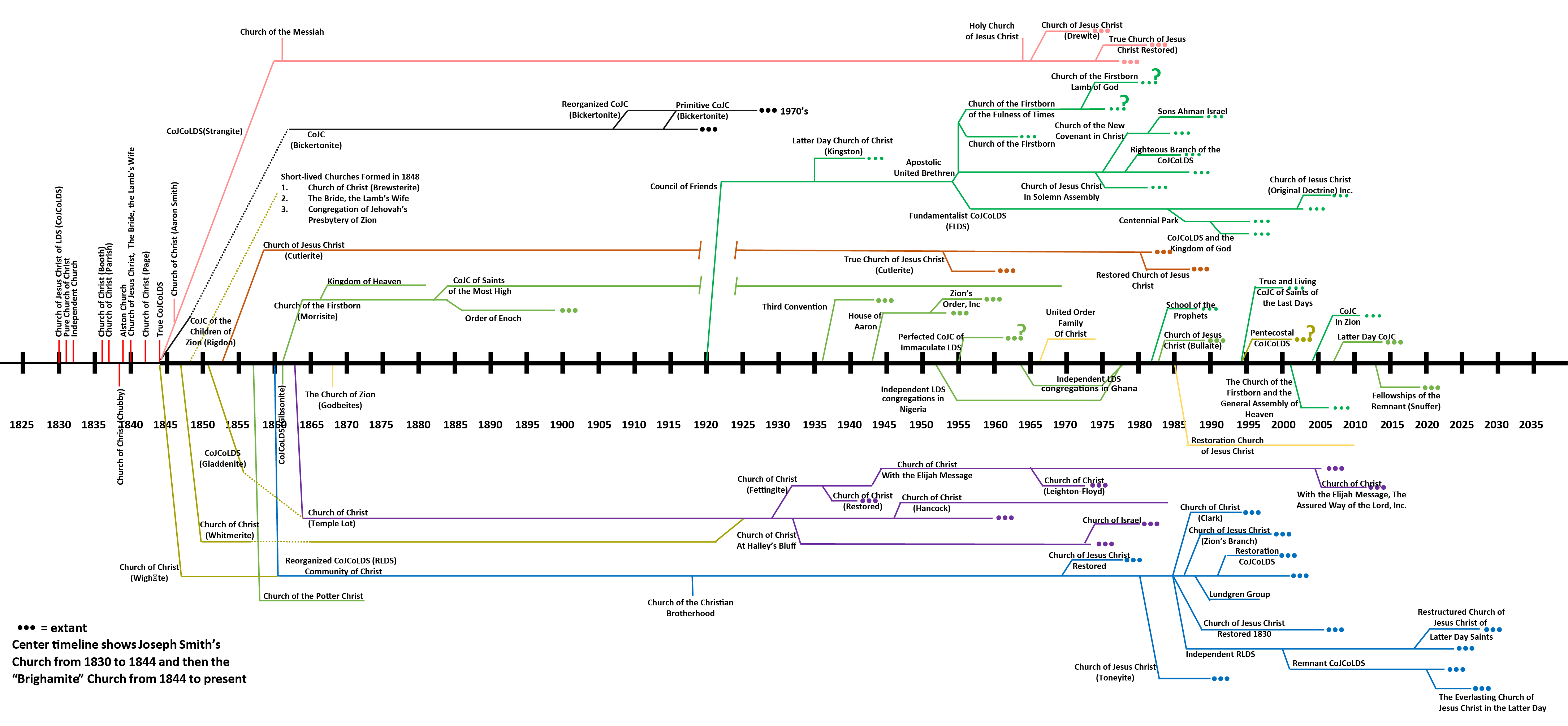 A Brighamite-centric timeline of formations and origins for most LDS denominations. Updated 08/23/2019. Diagram may not be all-inclusive. Diagram was modified from an existing WikiCommons file. Existing information on the diagram was not checked for accuracy. Original file can be found here